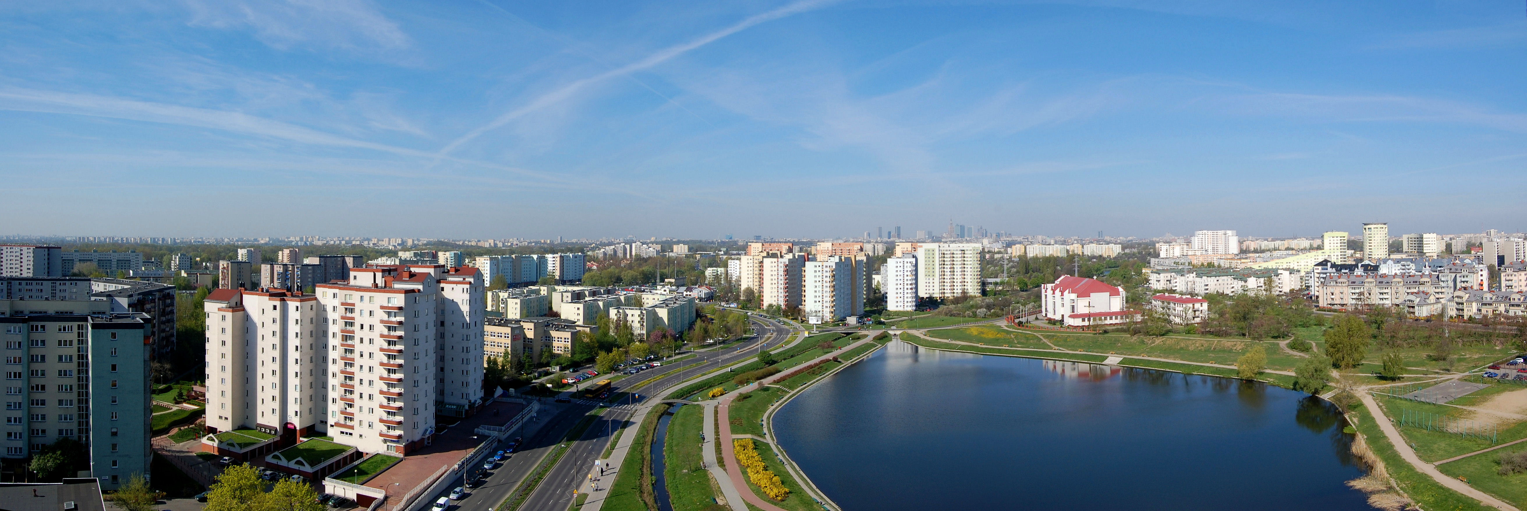 Daylight panoramic of Gocław district